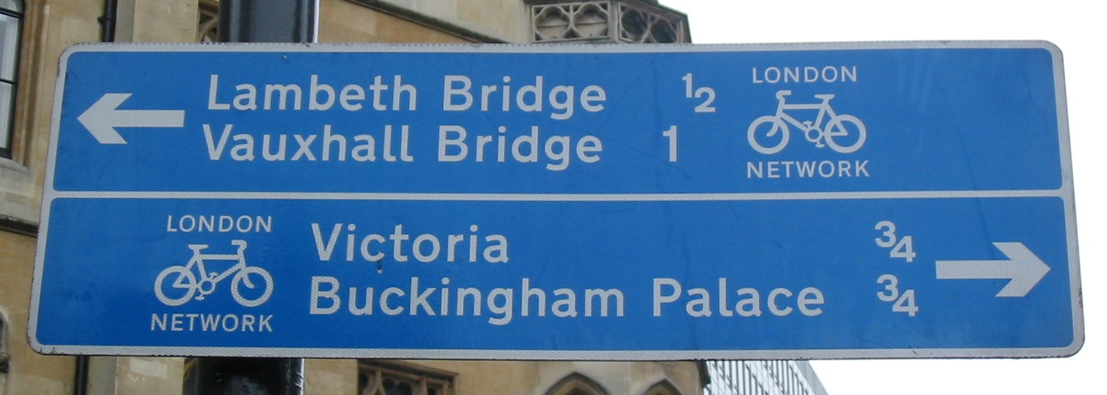 London